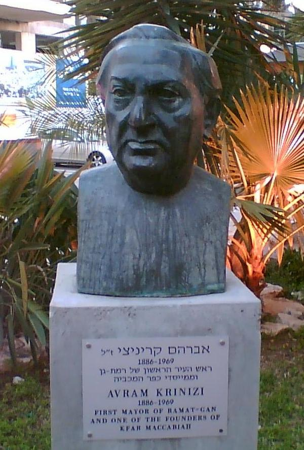 Scukpture of Avram Krinizi, mayor of Ramat Gan, Israel